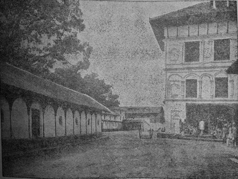 Kot massacre